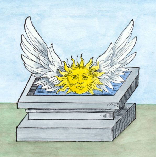 16th century woodcut of a winged sun hovering above a sepulchre filled with water, from Rosary of the Philosophers (Frankfurt, 1550) The illustration is of the illuminatio stage. It is captioned with "Here Sol plainly dies again, And is drowned with the Mercury of the Philosophers." in the 18th century English translation.